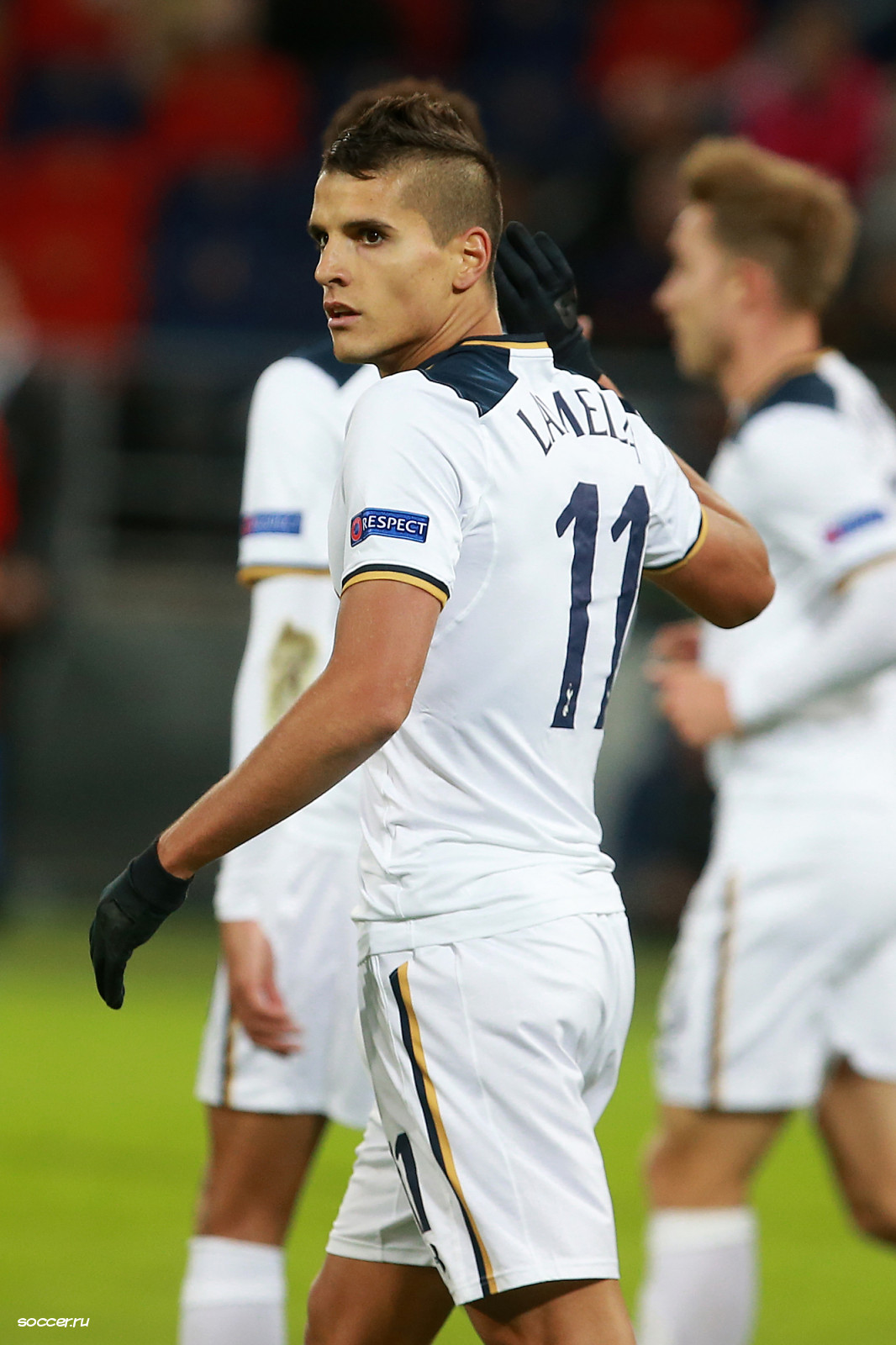 Lamela during CSKA Moscow - Tottenham in September 27, 2016.